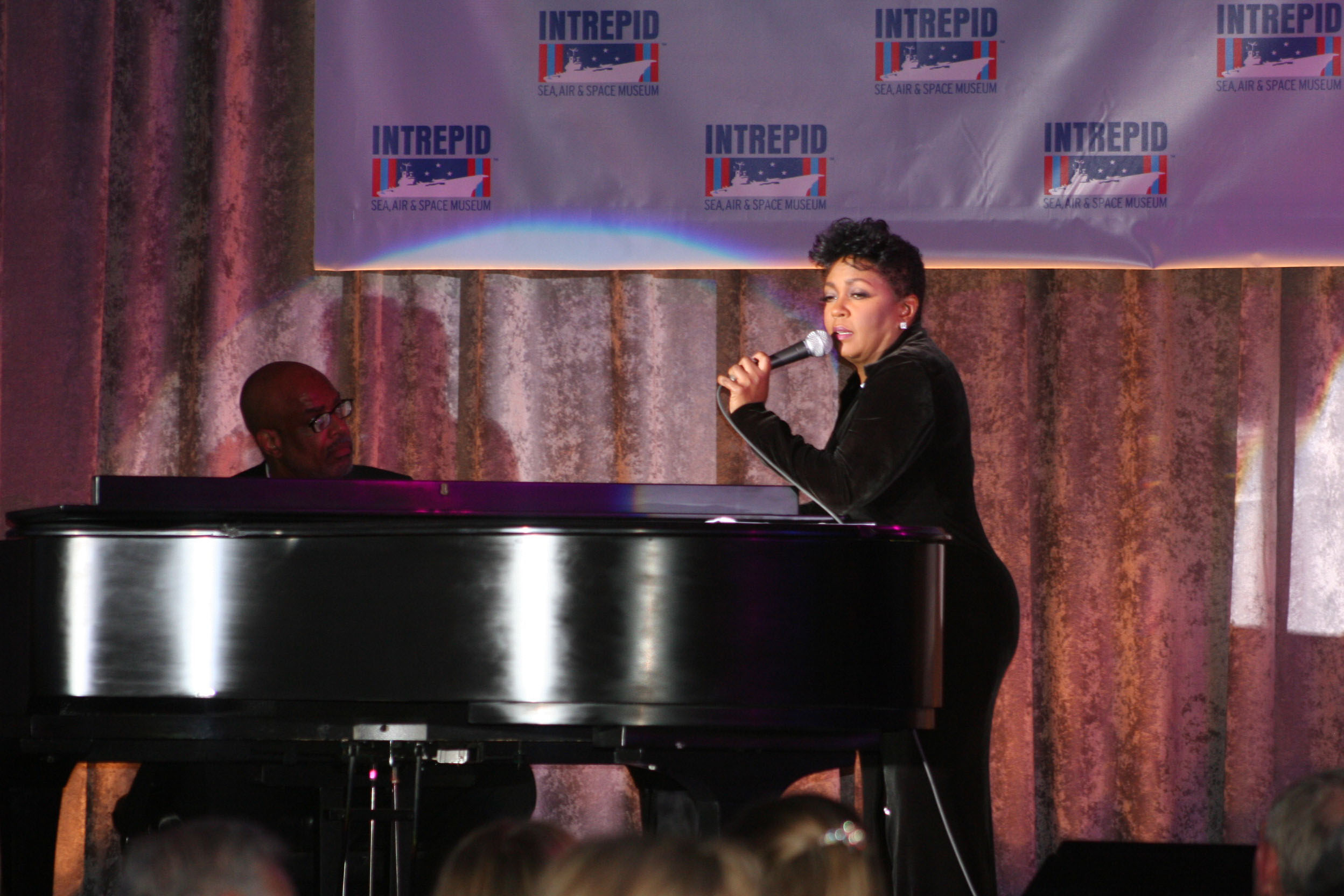 Singer Anita Baker performs at the 17th Annual Salute to Freedom aboard the Intrepid Sea, Air & Space Museum, in New York.